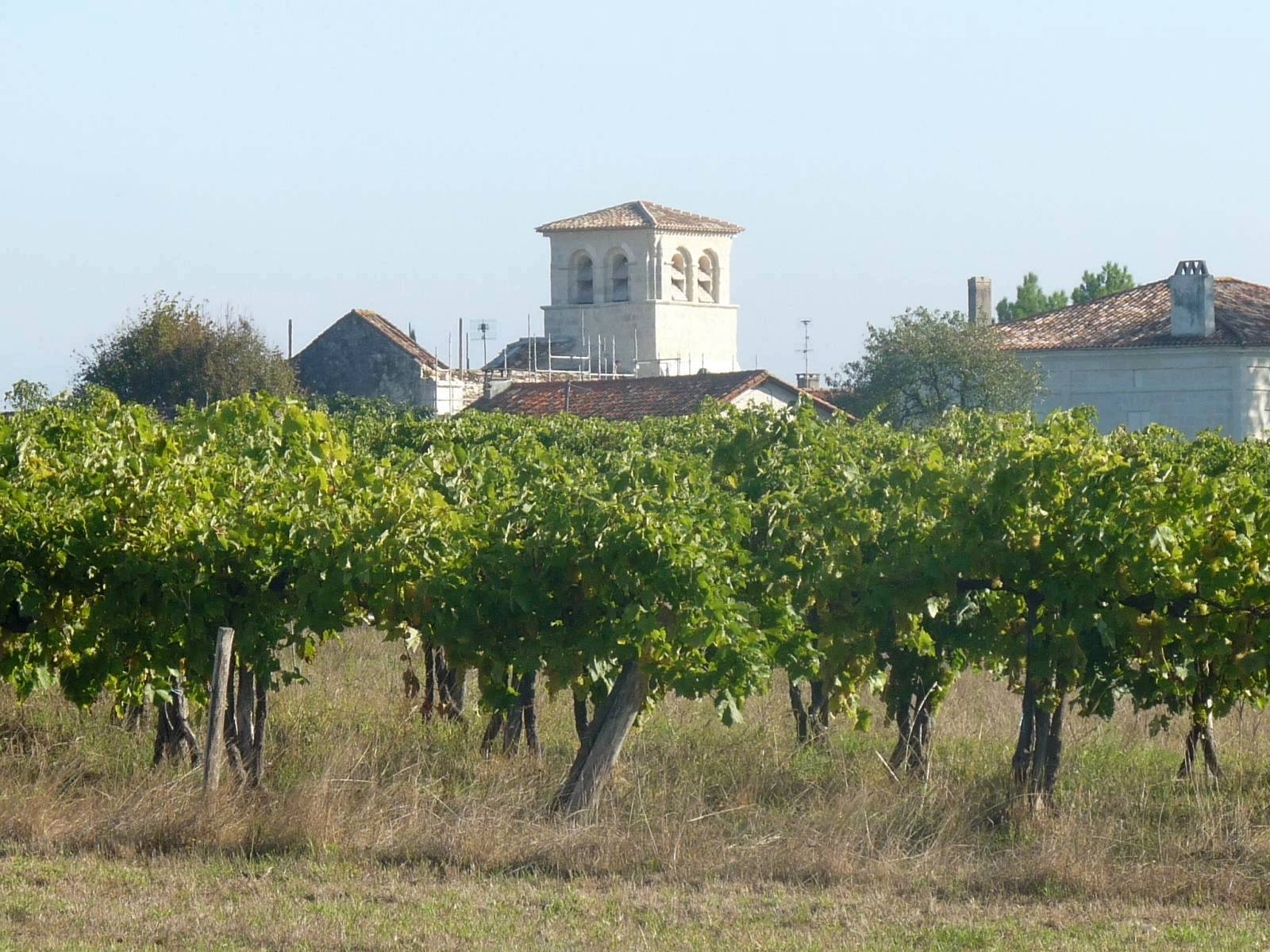 church of Médillac, Charente, SW France